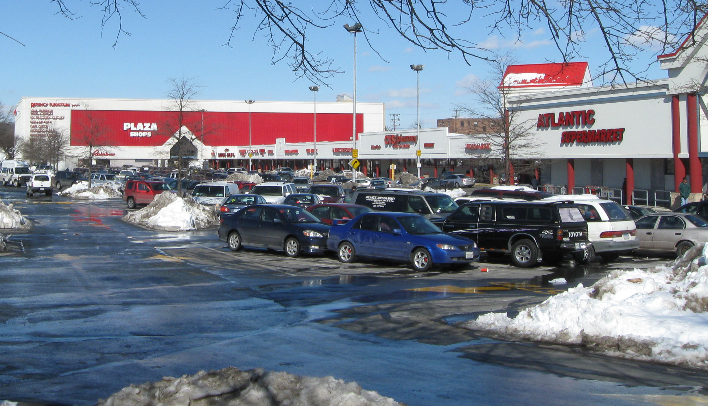 Langley Park Plaza shopping center at the corner of University Boulevard and New Hampshire Avenue in central Langley Park, Maryland, USA.